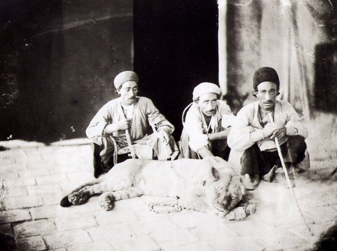 Men with live lion. One of Antoin Sevruguin's historical Iran photographs.